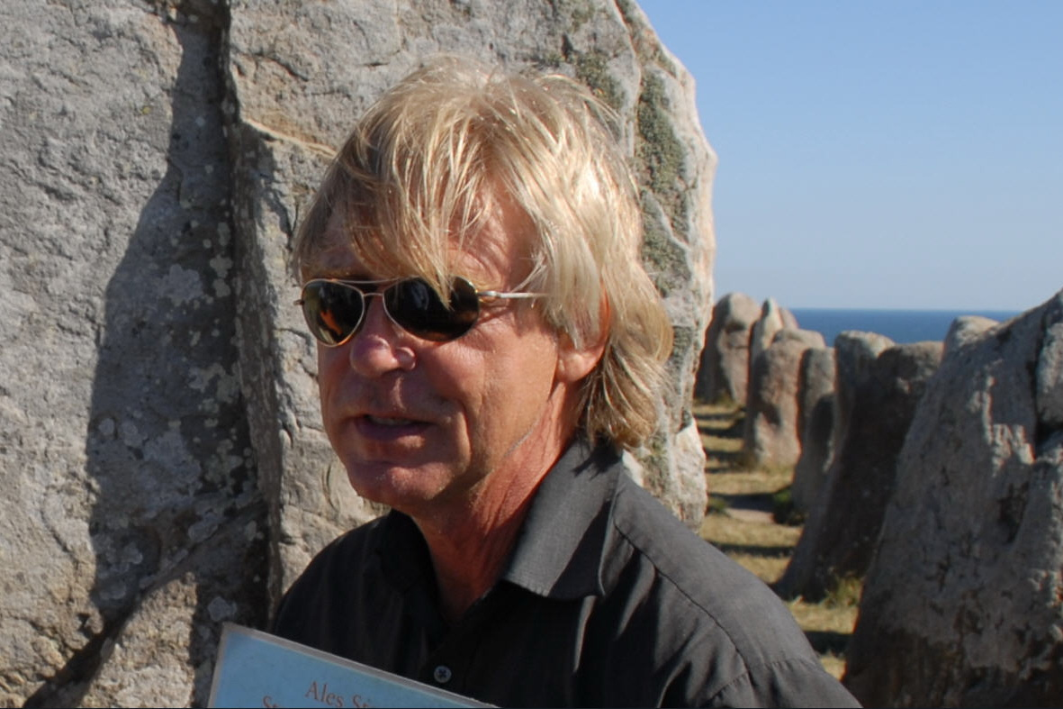 Bob G Lind giving a tour at Ales Stenar